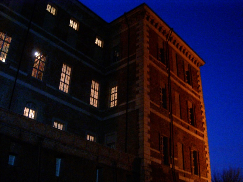 Castello di Rivoli at night